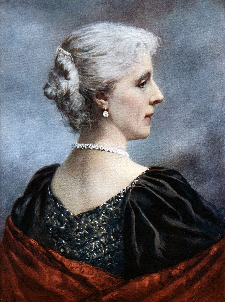 Marie Henriette, Queen of the Belgians in her final years